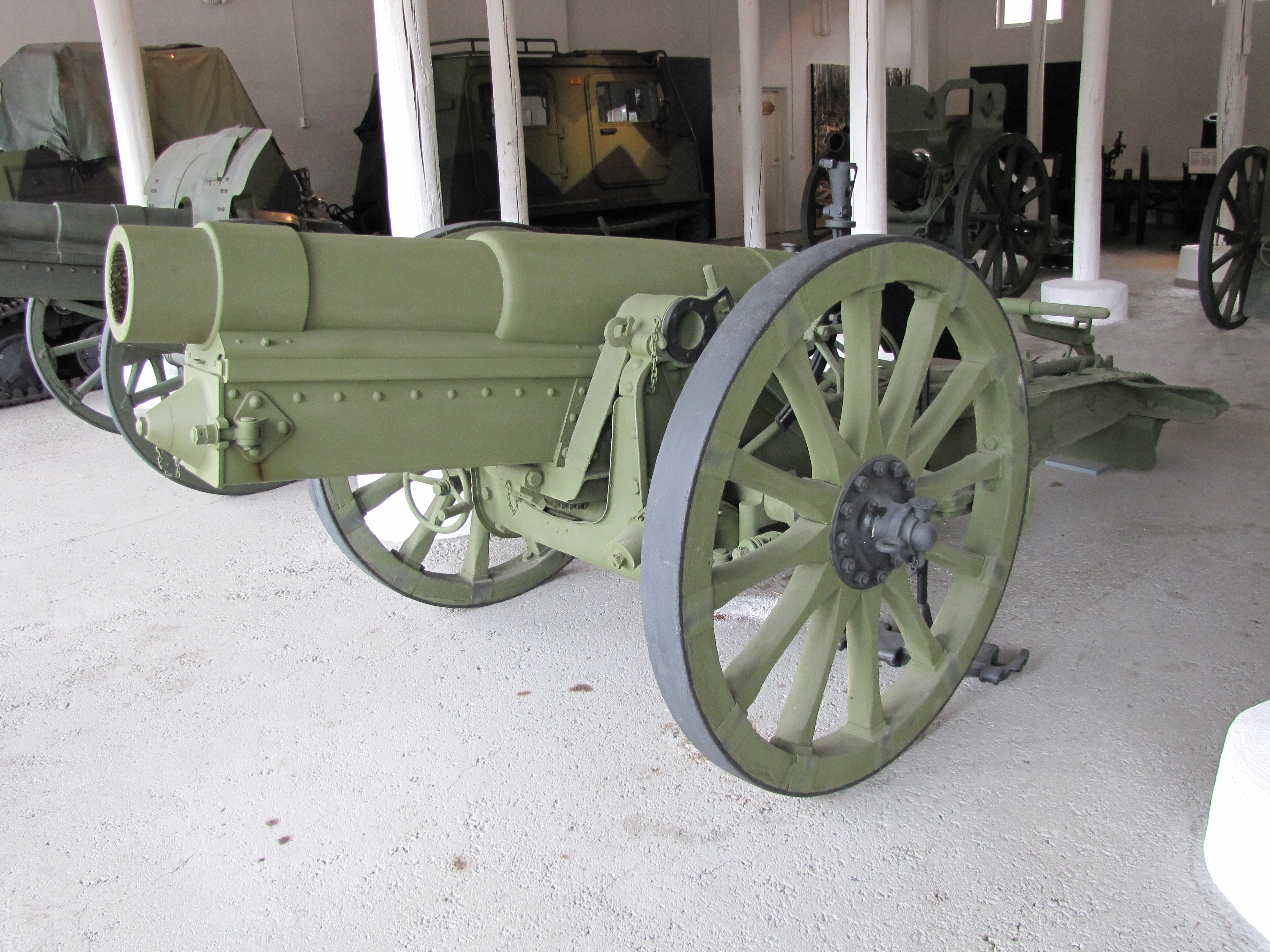 Japanese type 38 15 cm howitzer in Hämeenlinna artillery museum. This piece is built in Japan, purchased by Russian Empire and taken over by Finland during Finnish Civil War. Finnish designation 150 H 14 J. Built in Osaka Gun Factory in 1909, serial number 44.